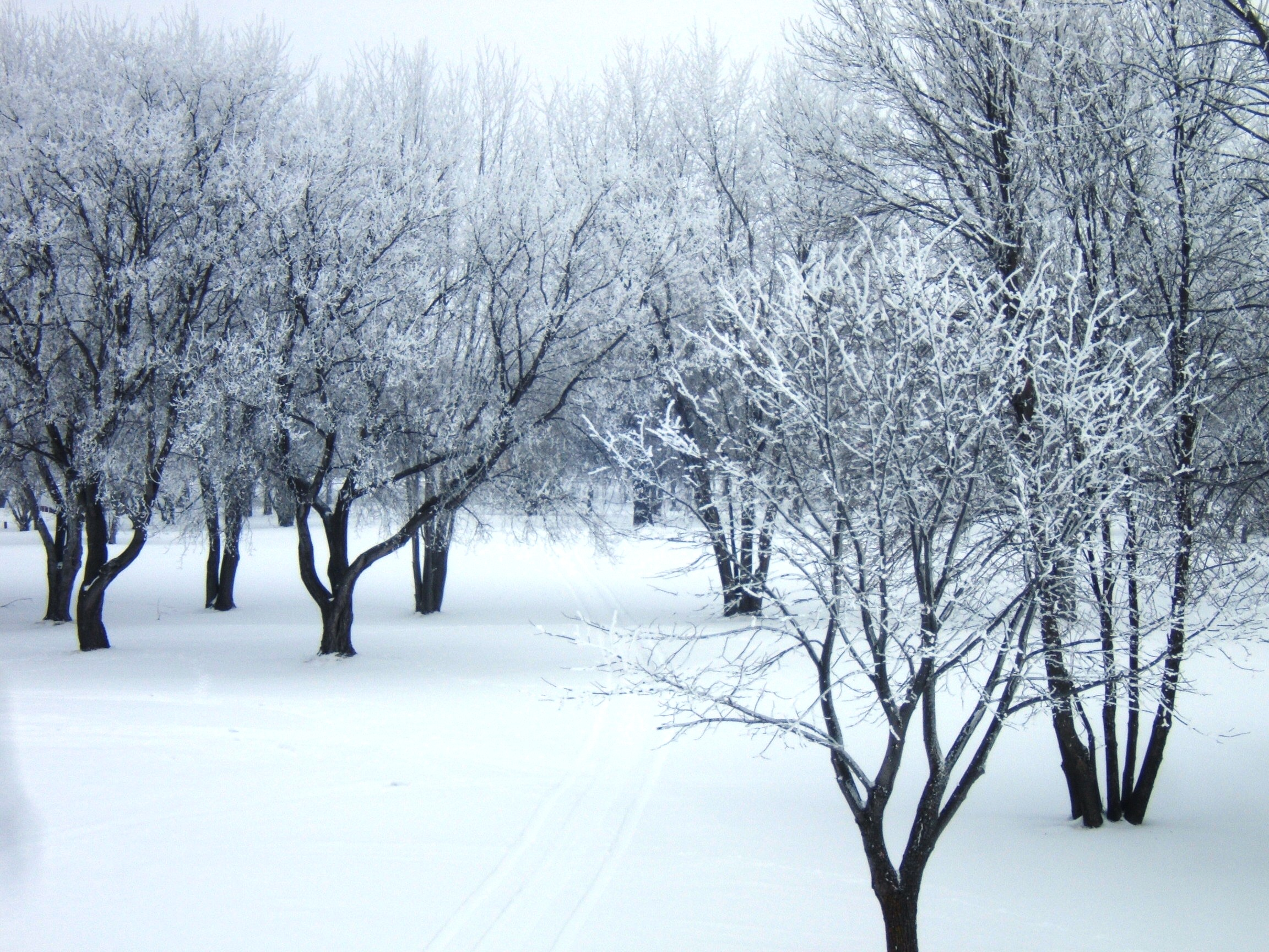 Selkirk park in Selkirk, Manitoba, Canada. Taken by me on Feb 3rd, 2012.